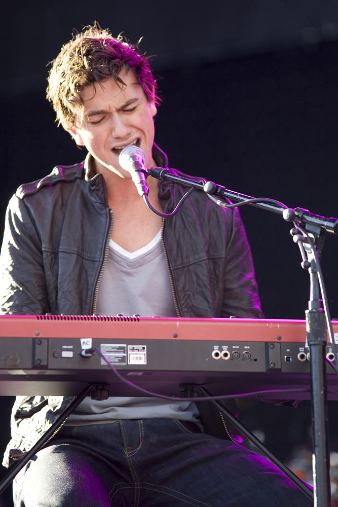 Richard Fleeshman, English singer and actor, performing as the supporting act for Elton John at the Keepmoat Stadium, Doncaster, England.